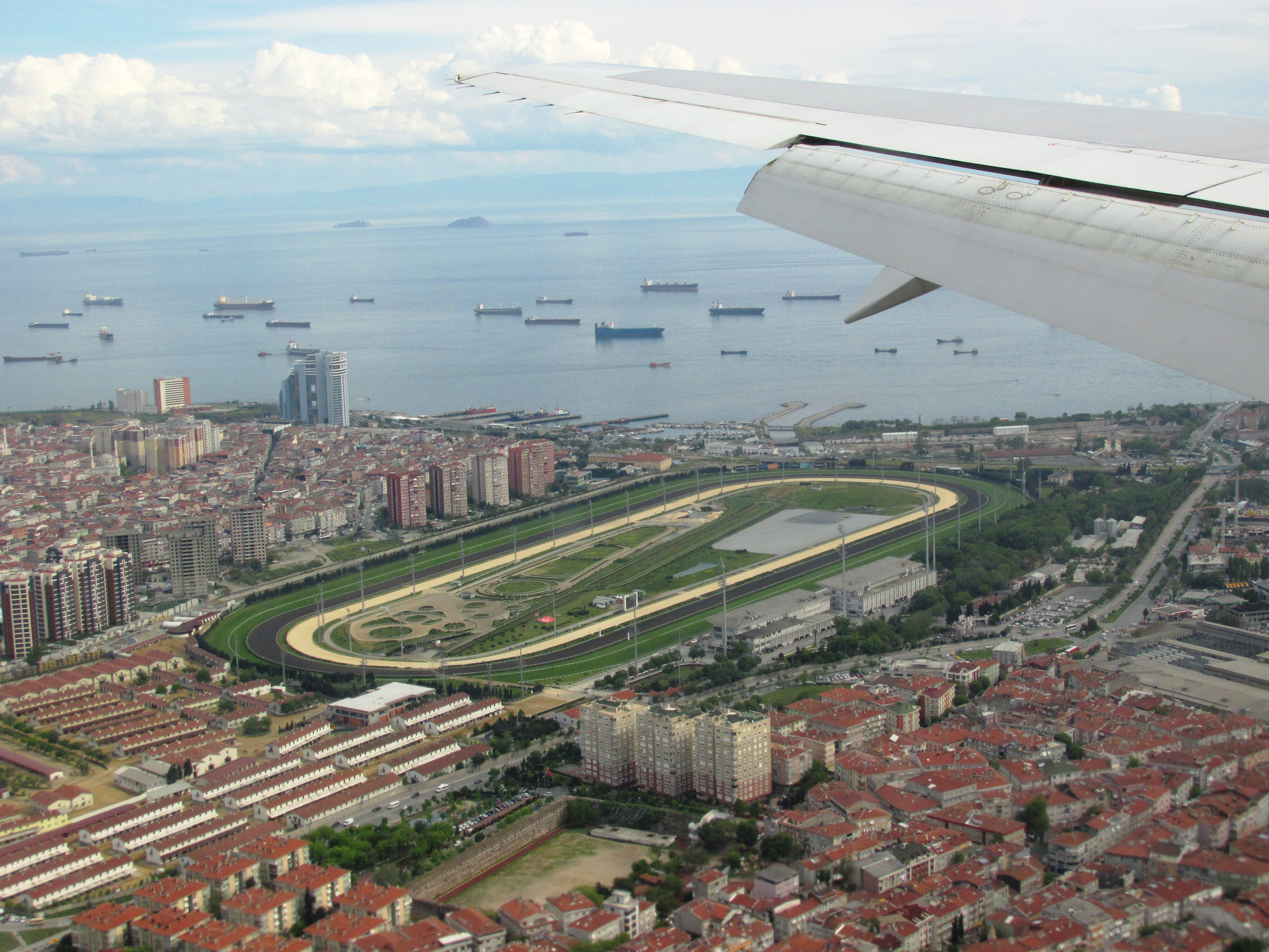 Veliefendi Hippodrome Lots of ships in the Sea of Marmara Istanbul Turkey